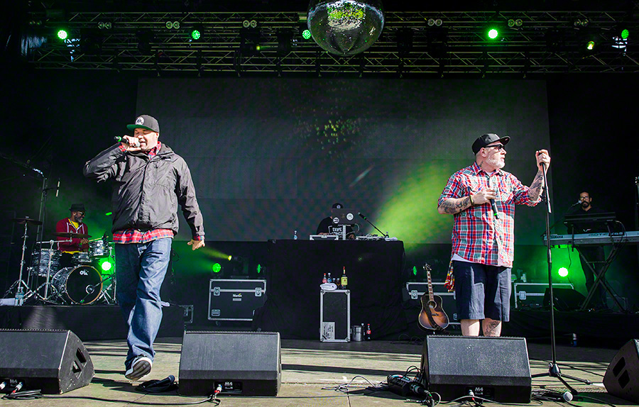 House of Pain performs at Quart Festival in Kristiansand on 28. June 2016. Lineup:Everlast (vocal)Danny Boy (vocal)